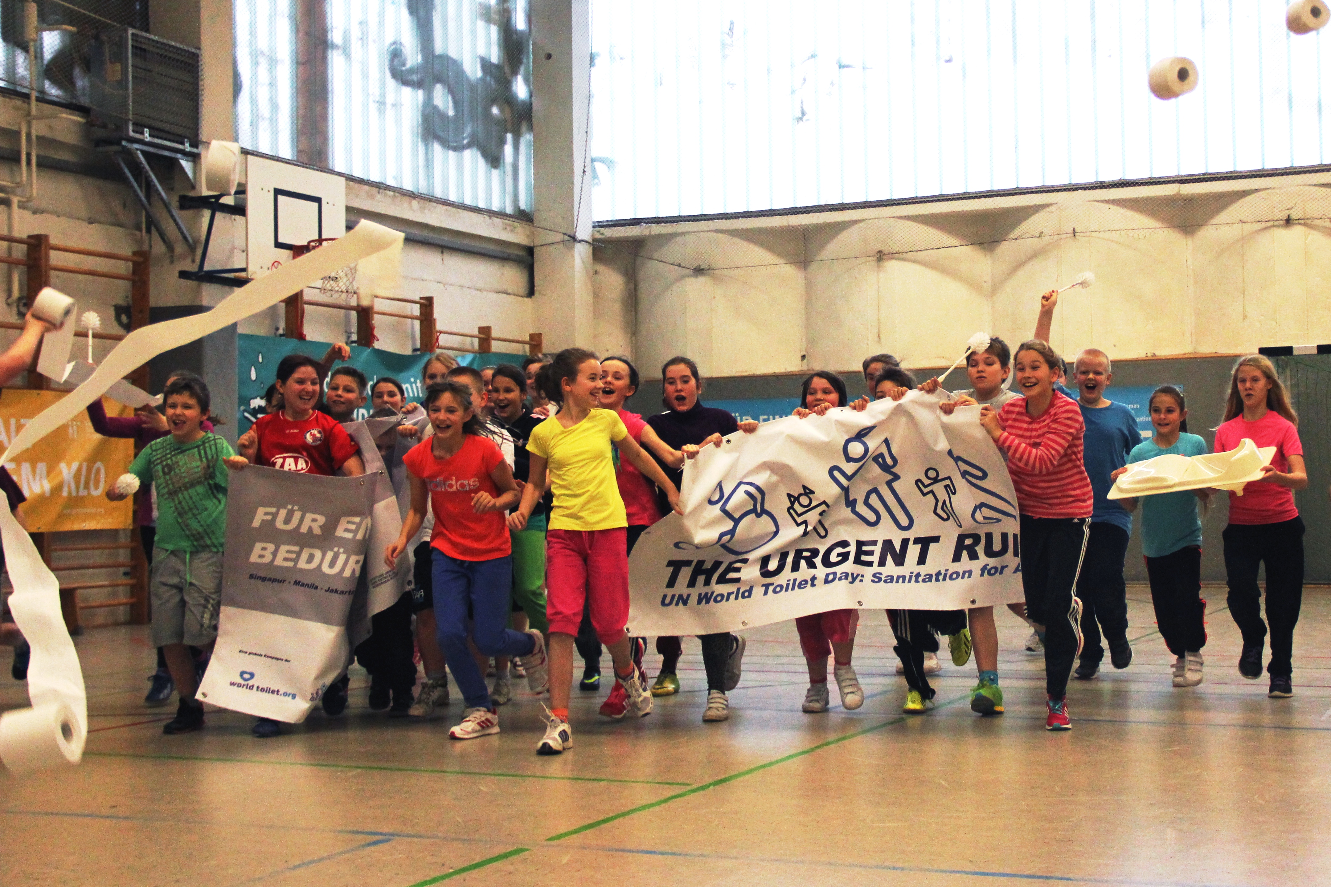 The Urgent Run 2014 being celebrated by school kids in Germany